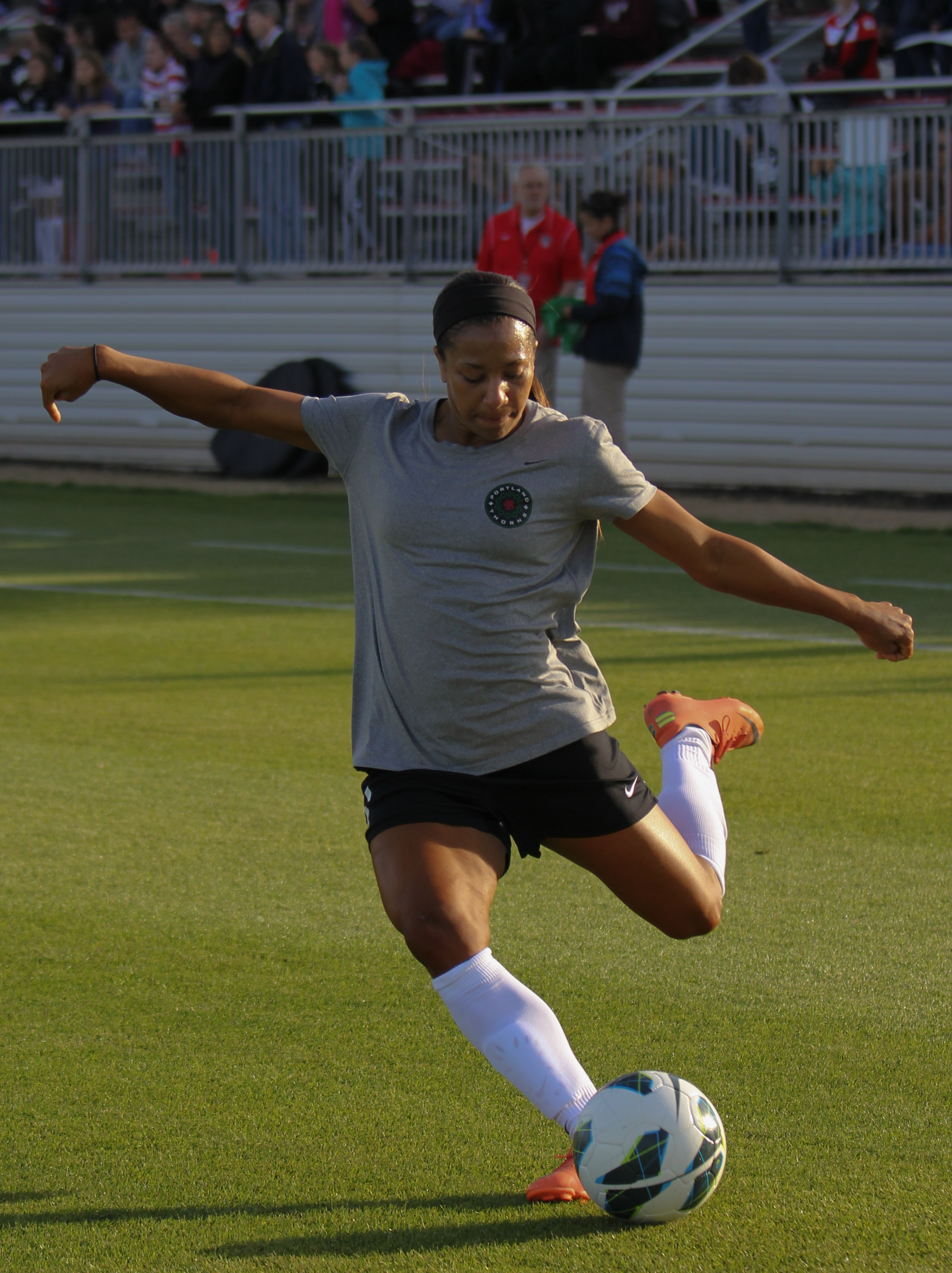 2013-05-04 Thorns-18